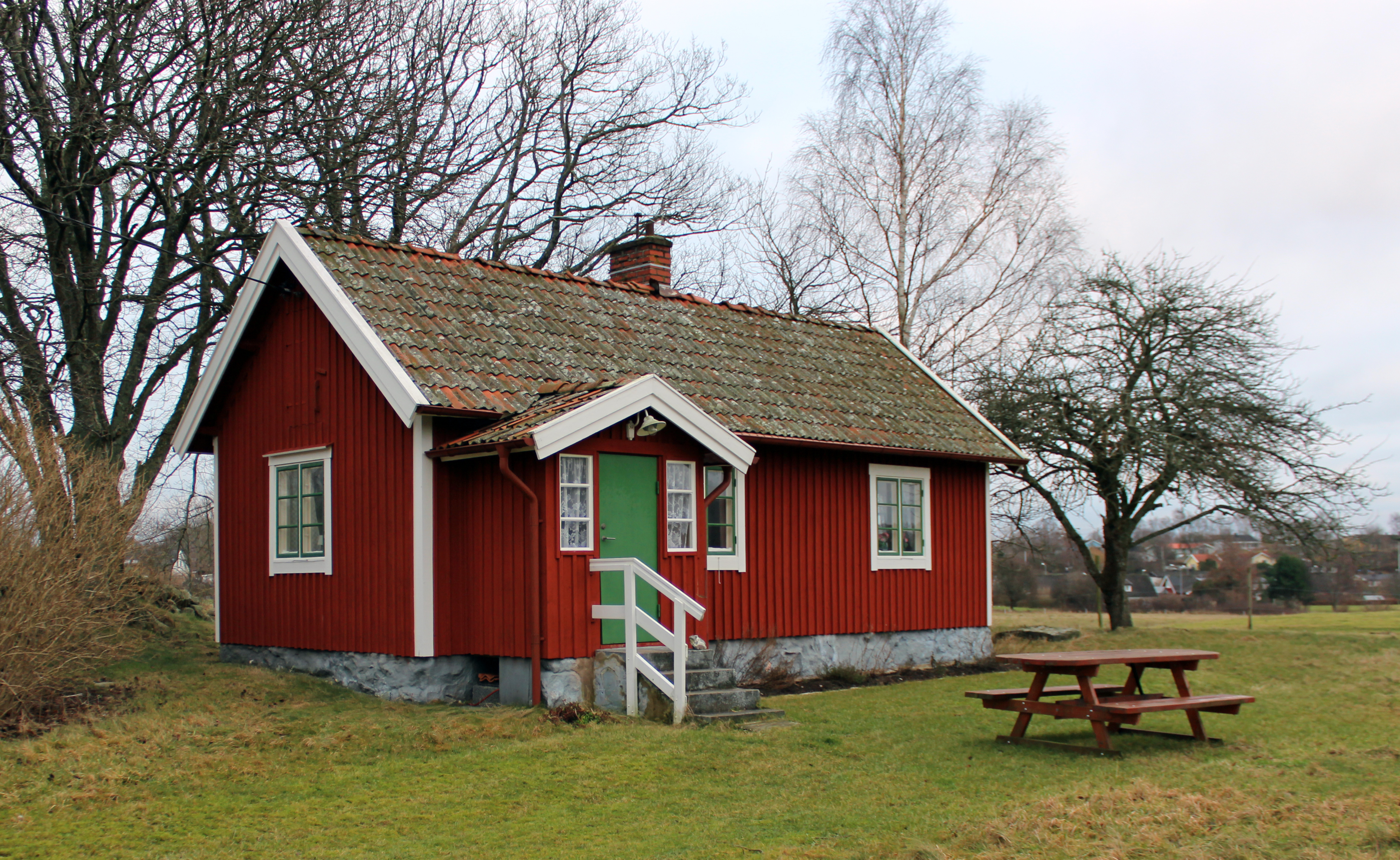 Kvarnlyckan near Mårtagården in Onsala, Halland, Sweden.